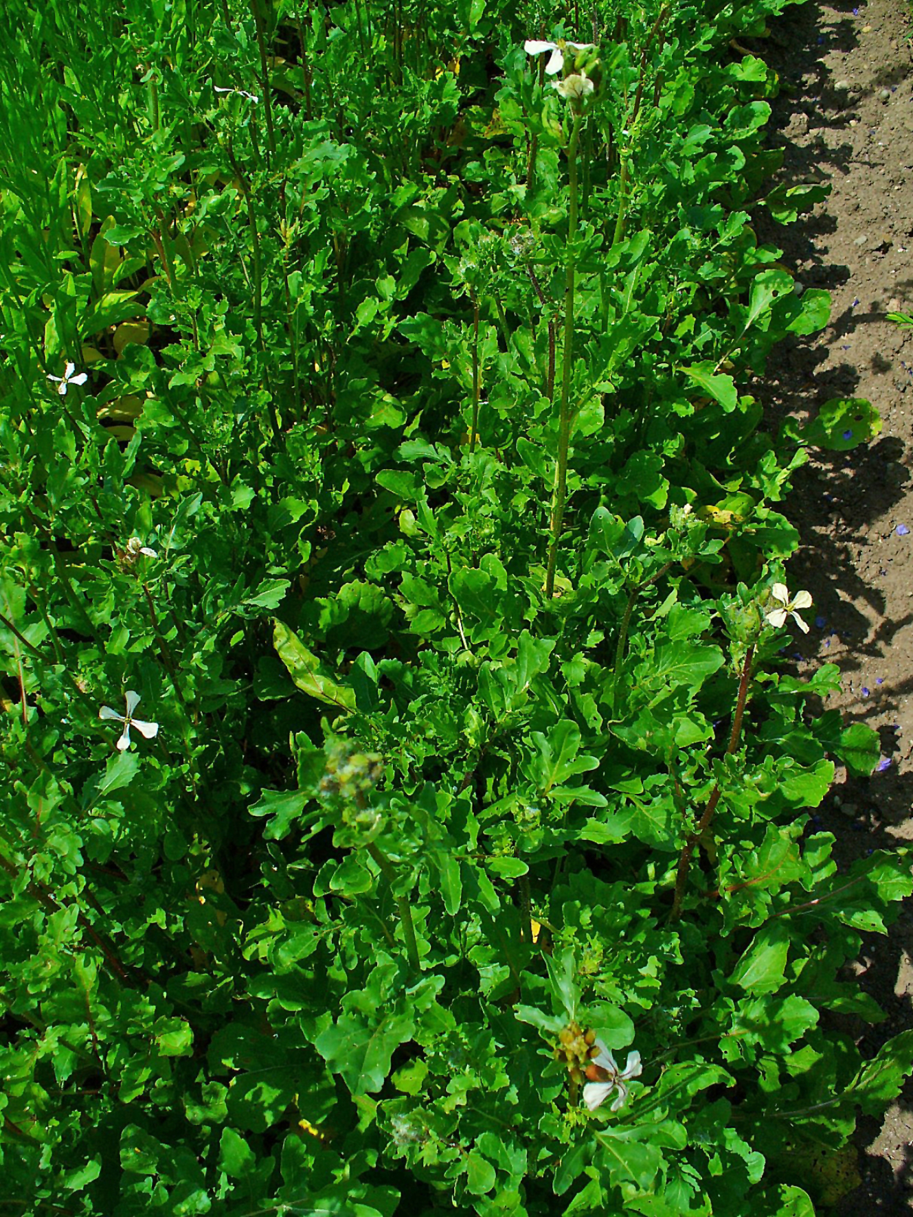 Eruca sativa, Brassicaceae, Rocket, Arugula, habitus; Botanical Garden KIT, Karlsruhe, Germany.